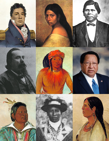 A Choctaw collage from public domain images.